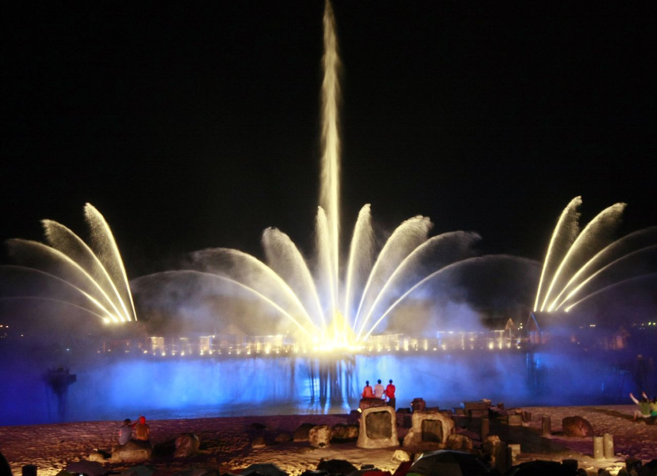 Taken using Canon EOS 40D.